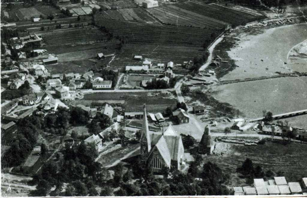 Aerial photo of the Koivisto town, in the Eastern Finland in the year 1934. A few years later the town became part of the USSR and was practically demolished.